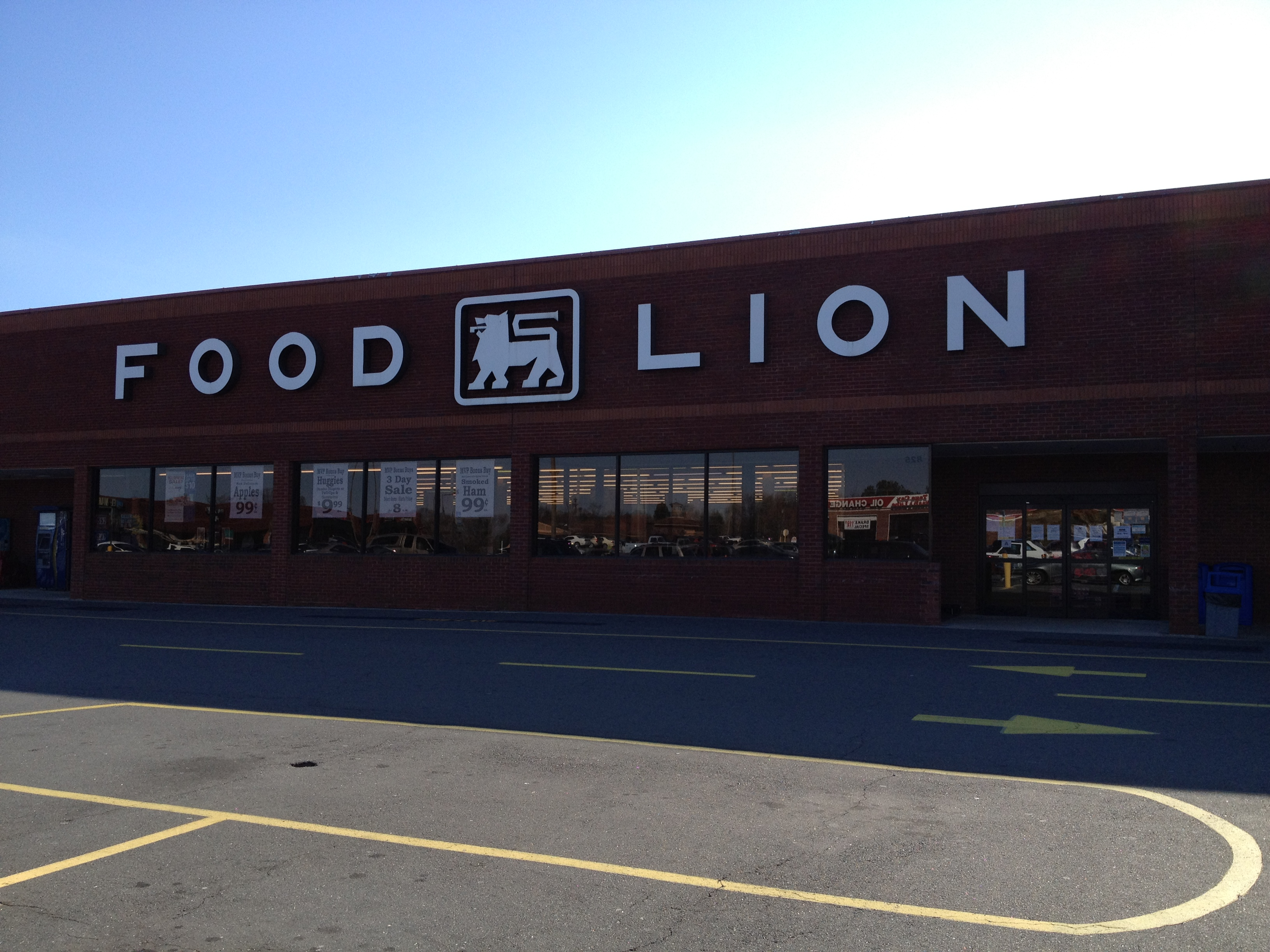 Food Lion Tega Cay, SC